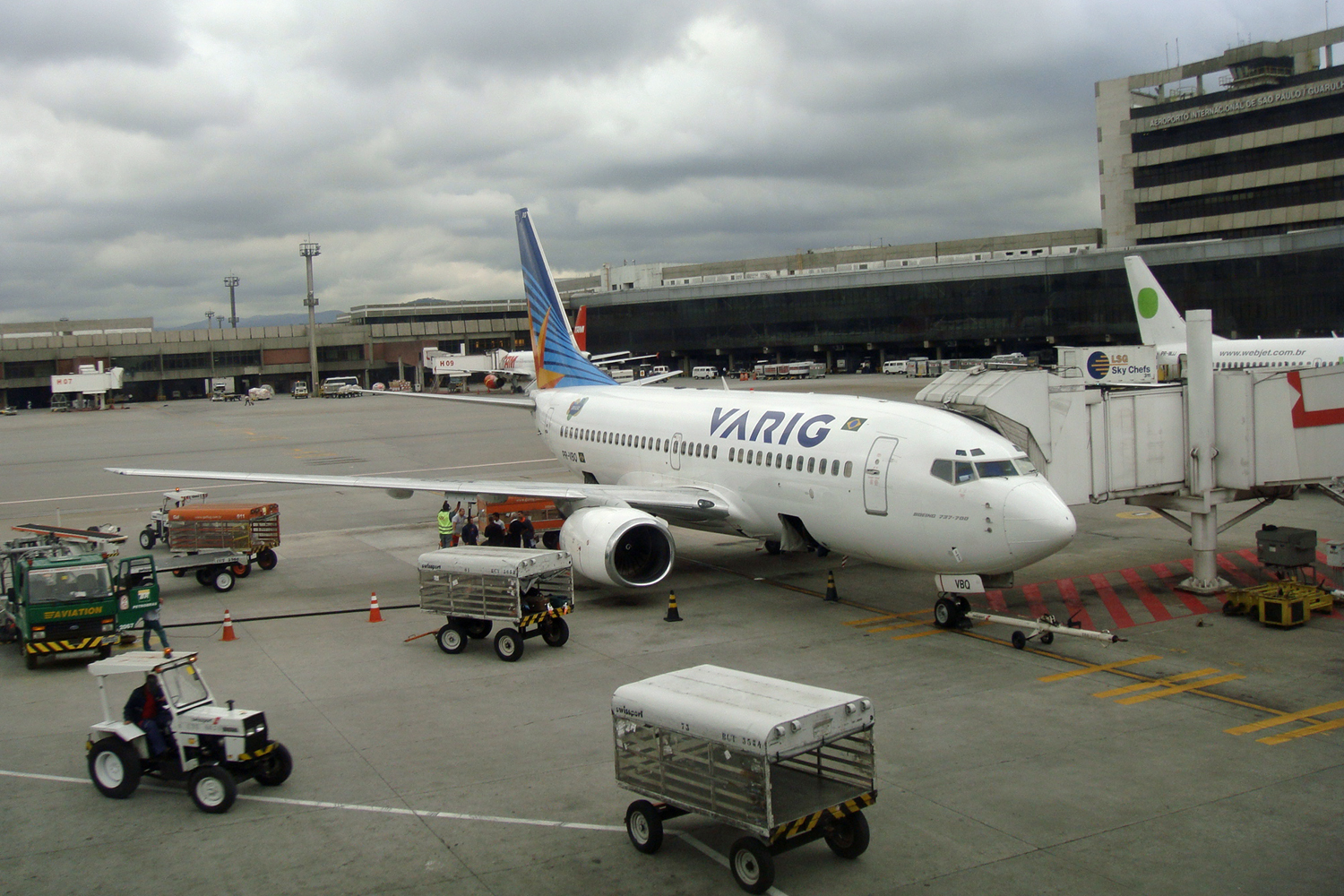 VARIG Boeing 737-700 at São Paulo/Guarulhos International Airport (GRU)